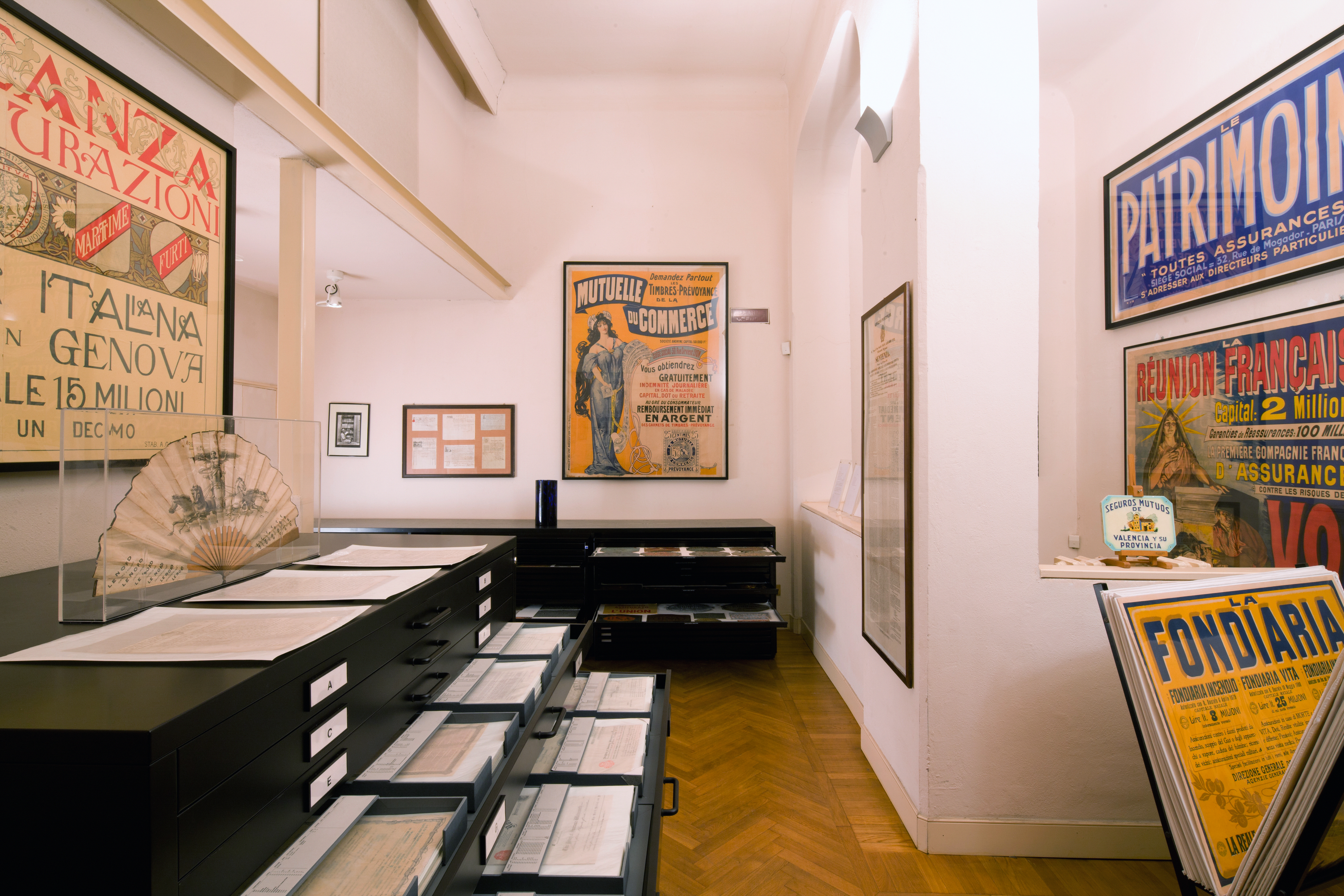 Fondazione Mansutti